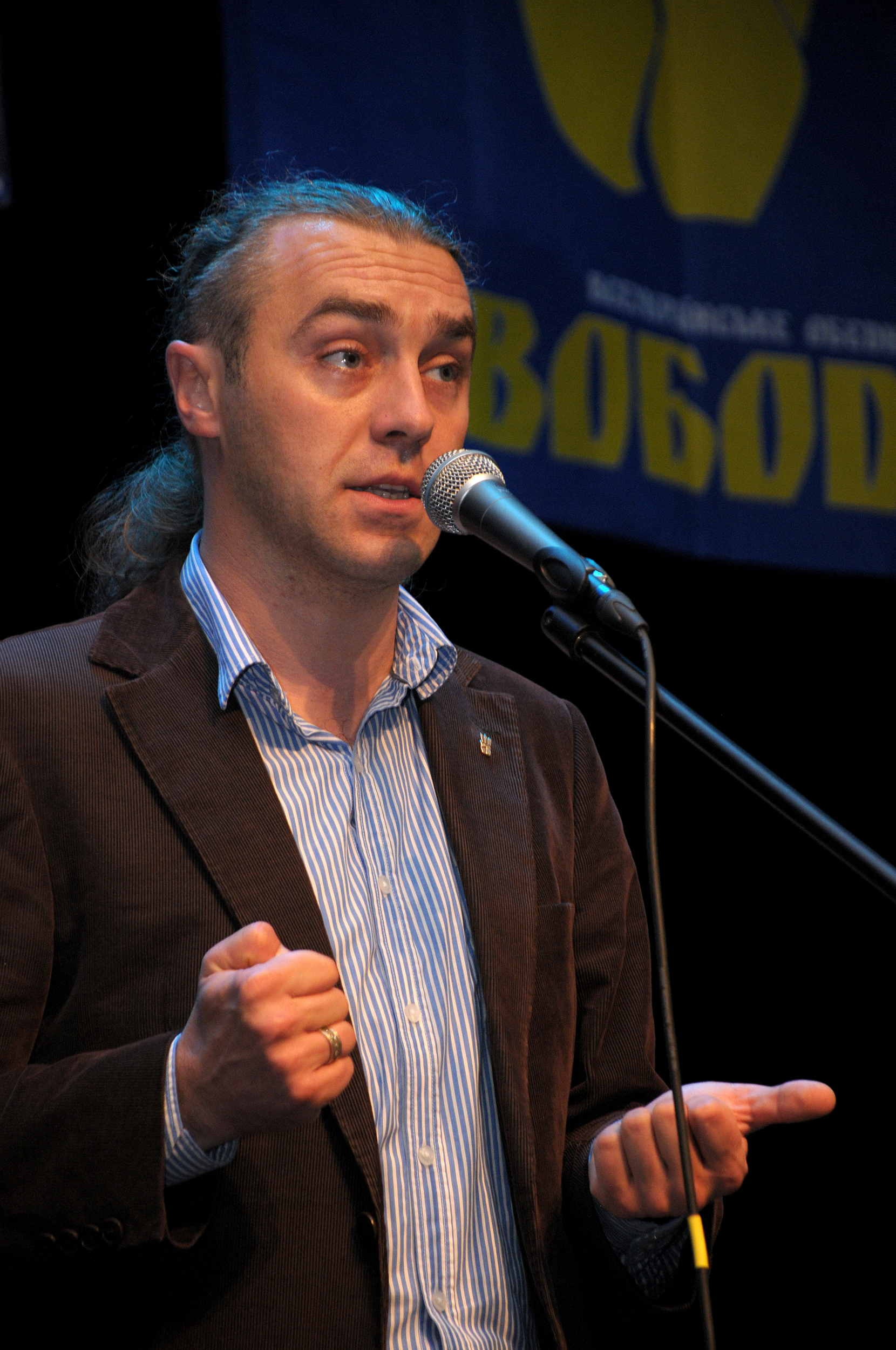 Ihor Miroshnychenko, Ukrainian politician, member of the Ukrainian Verkhovna Rada